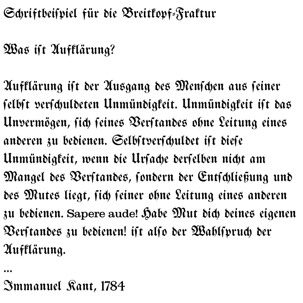 example in typeface Breitkopf-Fraktur